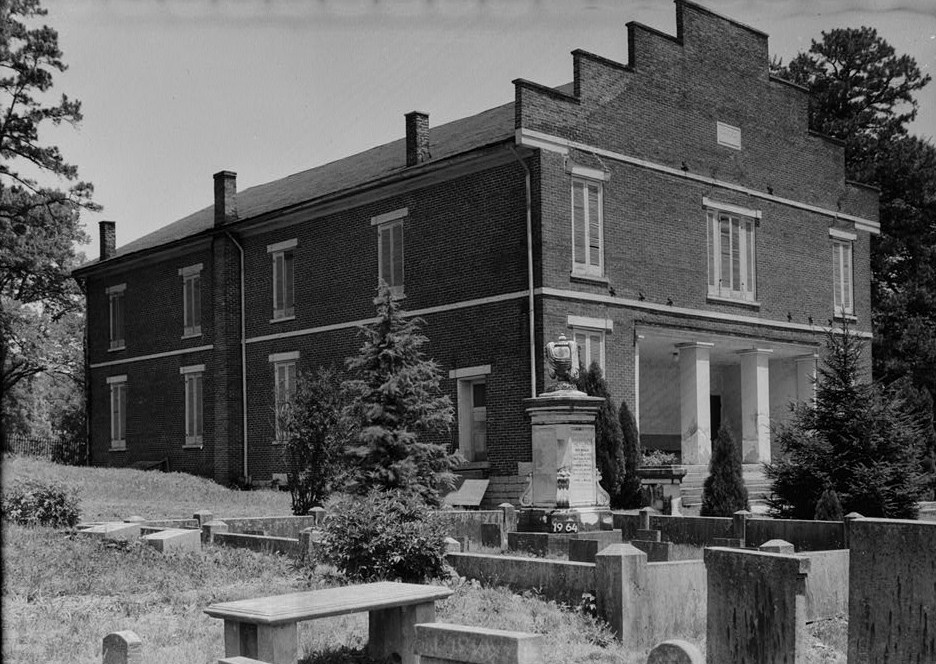 Zion Church (Presbyterian), State Route 1, Columbia vicinity (Maury County, Tennessee) cropped This file comes from the Historic American Buildings Survey (HABS), Historic American Engineering Record (HAER) or Historic American Landscapes Survey (HALS). These are programs of the National Park Service established for the purpose of documenting historic places. Records consist of measured drawings, archival photographs, and written reports. When reusing please credit: Library of Congress, Prints & Photographs Division, TENN,60-COLUM.V,3-1 This tag does not indicate the copyright status of the attached work. A normal copyright tag is still required. See Commons:Licensing for more information. This work is in the public domain in the United States because it is a work prepared by an officer or employee of the United States Government as part of that person’s official duties under the terms of Title 17, Chapter 1, Section 105 of the US Code. See Copyright. Note: This only applies to original works of the Federal Government and not to the work of any individual U.S. state, territory, commonwealth, county, municipality, or any other subdivision. This template also does not apply to postage stamp designs published by the United States Postal Service since 1978. (See § 313.6(C)(1) of Compendium of U.S. Copyright Office Practices). It also does not apply to certain US coins; see The US Mint Terms of Use. This file has been identified as being free of known restrictions under copyright law, including all related and neighboring rights.